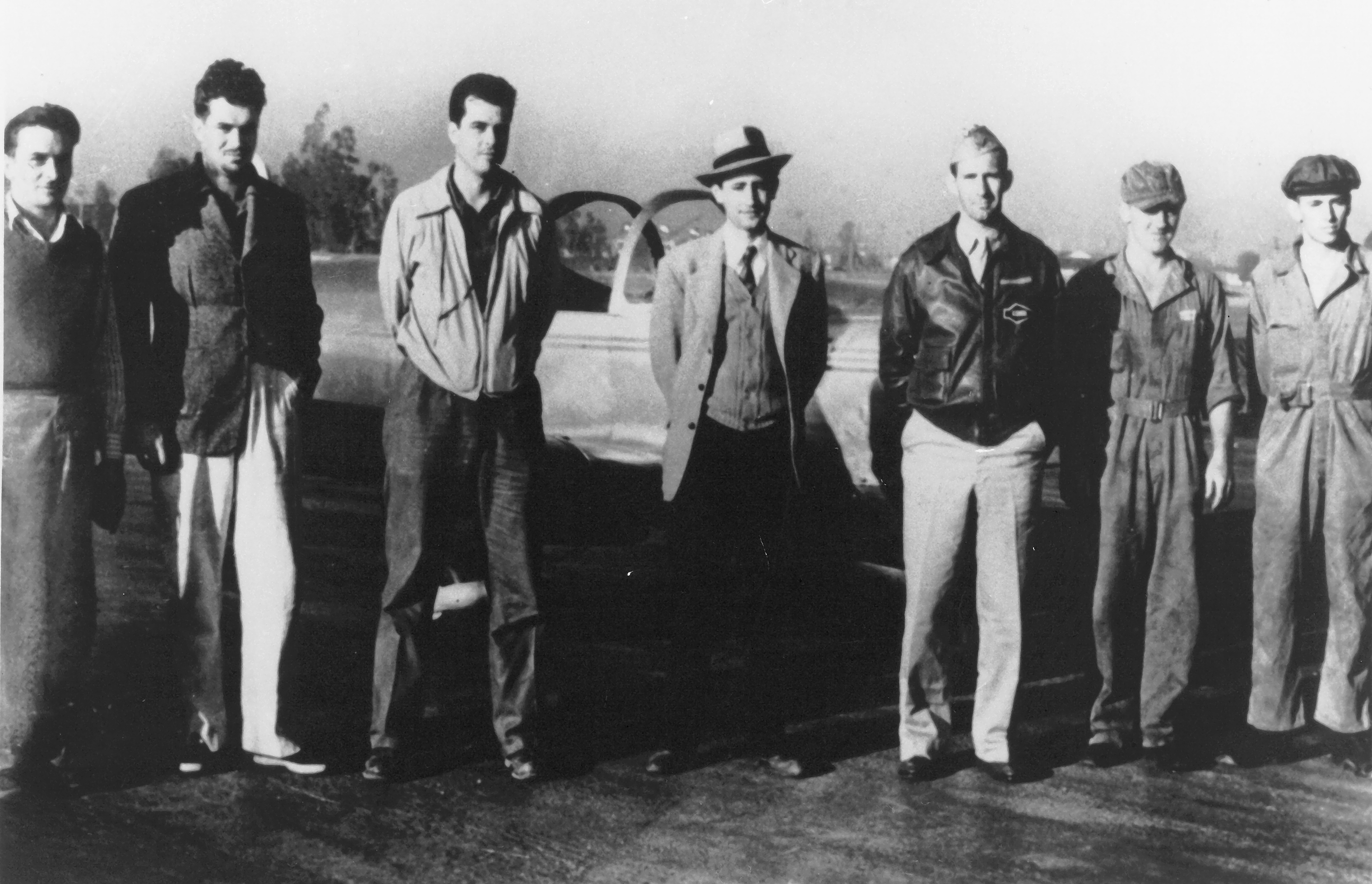 Flight test crew for the Jet Assisted Take-Off (JATO) experimental solid rocket booster. It was later refered to as RATO (Rocket Assisted Take-Off). From left to right are: F.S. Miller, J.W. Parsons, E.S. Foreman, Dr. Frank J. Malina, Capt. Homer A. Boushey Jr. Pvt. Kobe and Cpl. R. Hamilton.